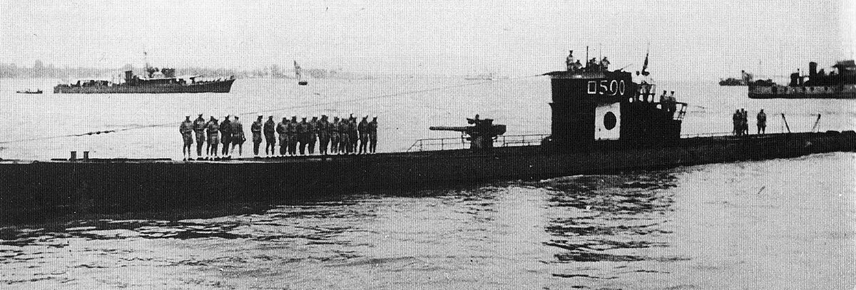 Japanese Submarine RO-500(ex-U.511), at Pengnan.